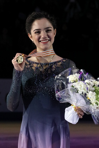 Evgenia Medvedeva (1ｓｔ) at the 2017 World Championships.